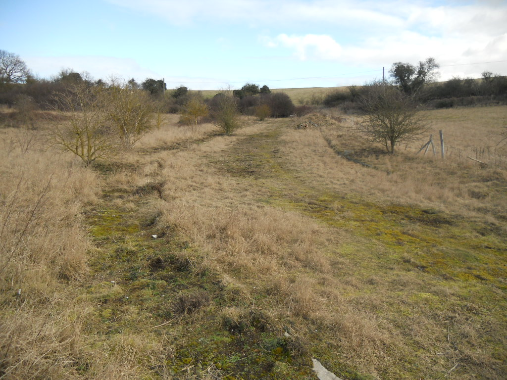 Lullingstone station-disused approach road